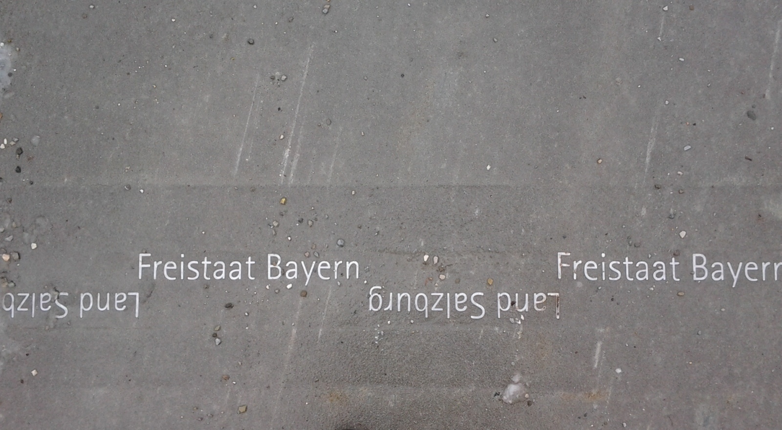 Indication of the border of Austria (Land Salzburg) to Germany (Freistaat Bayern) on the floor of the footbridge Europasteg between the cities Oberndorf bei Salzburg (state of Salzburg) and Laufen (Upper Bavaria)